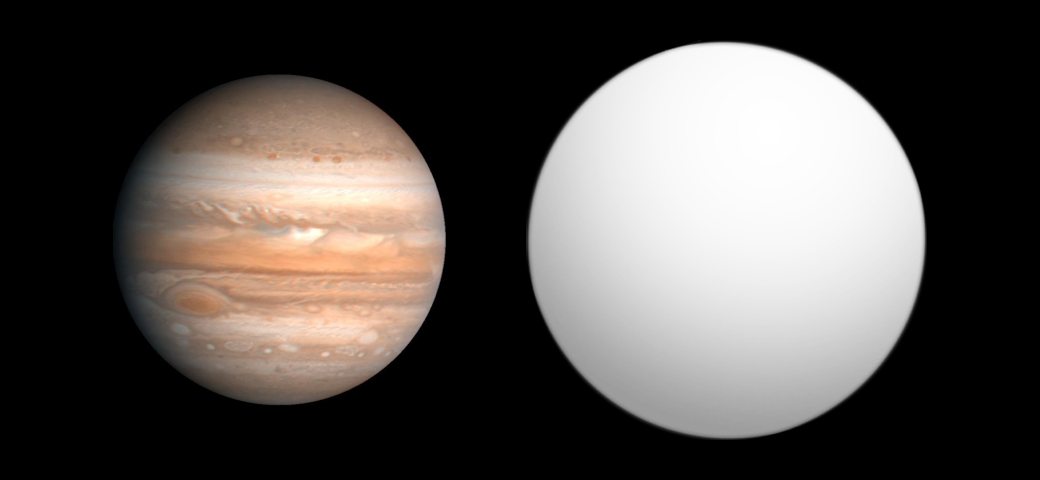 Comparison of best-fit size of the exoplanet HAT-P-14 b with the Solar System planet Jupiter, as reported in the Extrasolar Planets Encyclopaedia[1] as of 2010-10-03. ↑ Extrasolar Planets Encyclopaedia (2010-09-30). Retrieved on 2010-10-03.